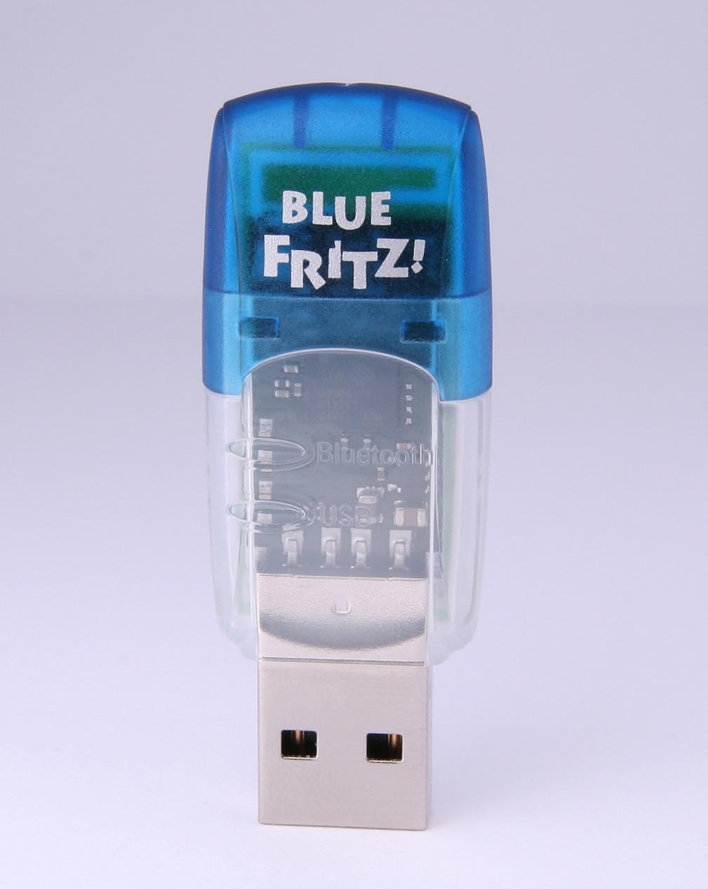 Bluetooth USB stick (AVM BlueFritz! USB V2.0)